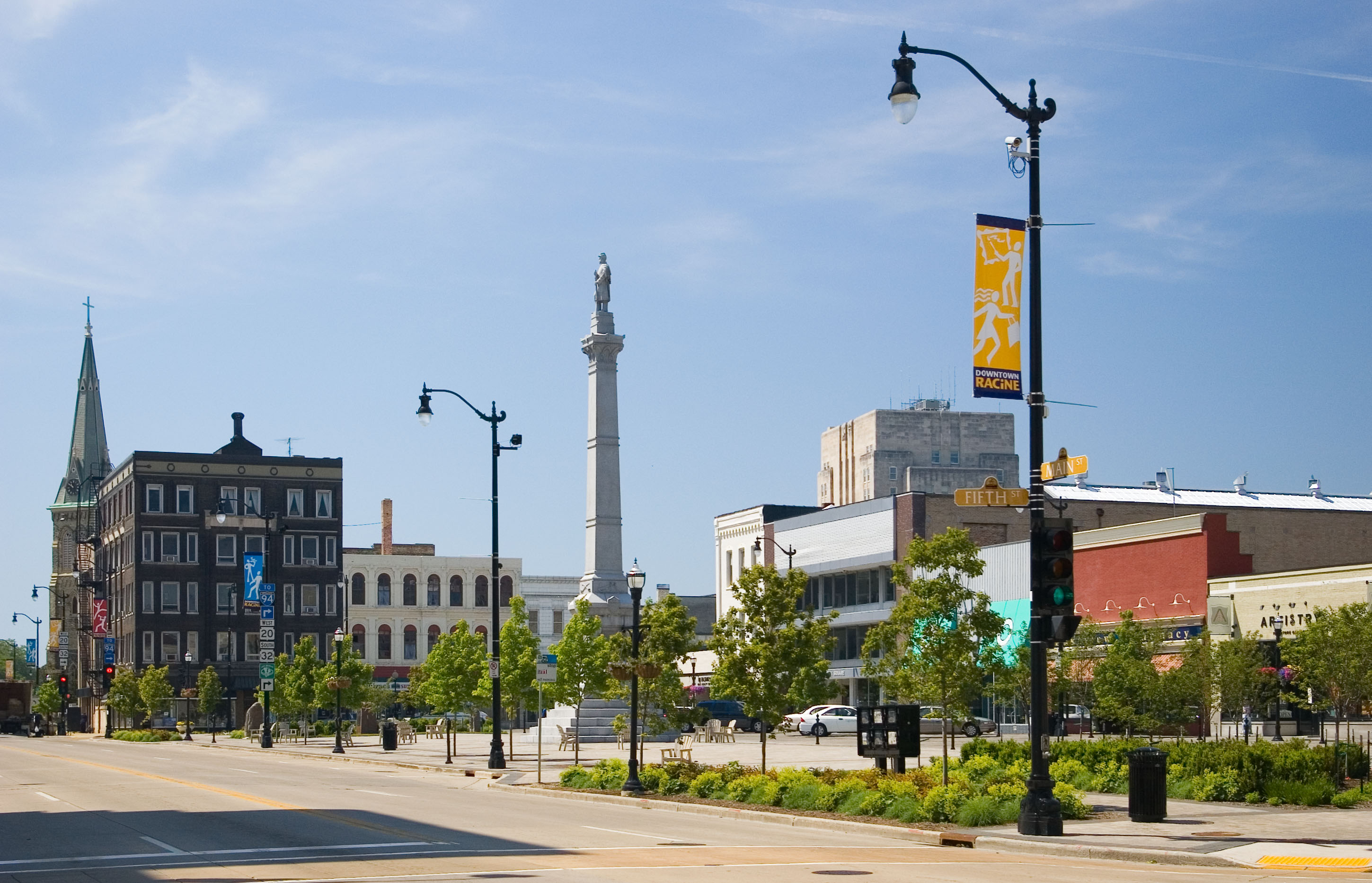 Downtown Racine, Wisconsin